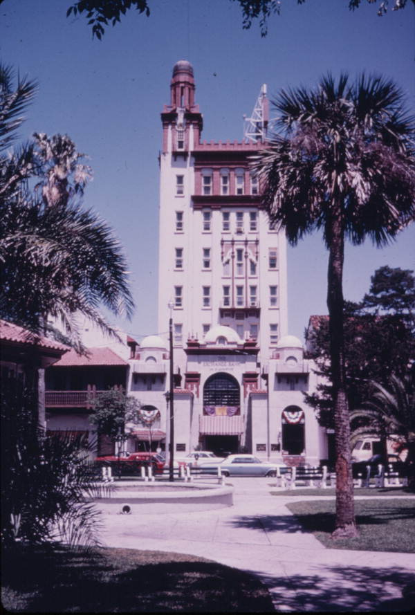 The Exchange Bank building on Cathedral Place in St. Augustine, Florida